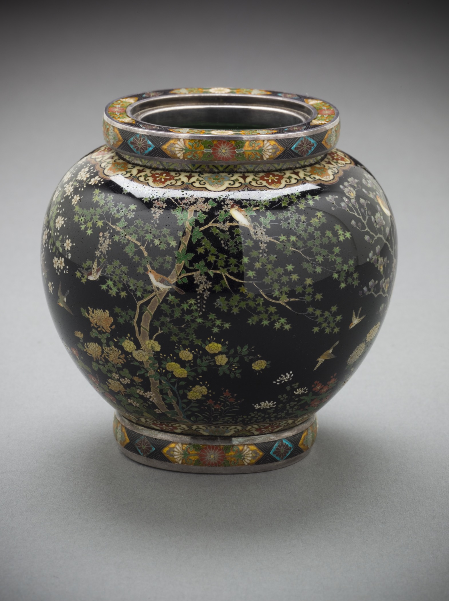 Japan, 19th century Tools and Equipment; burners Cloisonné with silver wire and silver mounts, silver body Gift of Mr. and Mrs. Eugene Tosk (M.91.251.2) Japanese Art